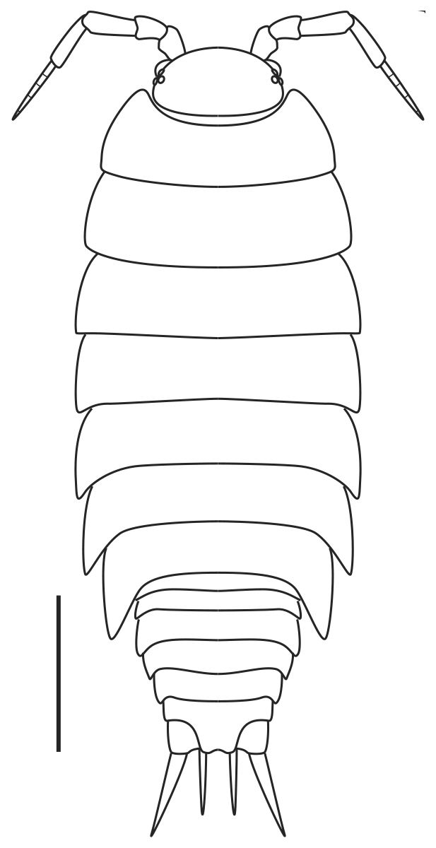 Trichoniscus pusillus. Scale bar: 1 mm.